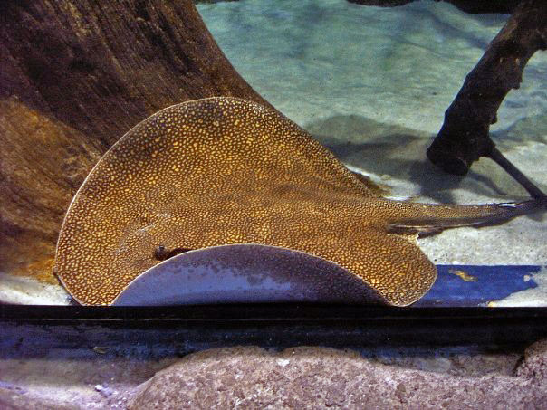 Vermiculate river stingray (Potamotrygon castexi)